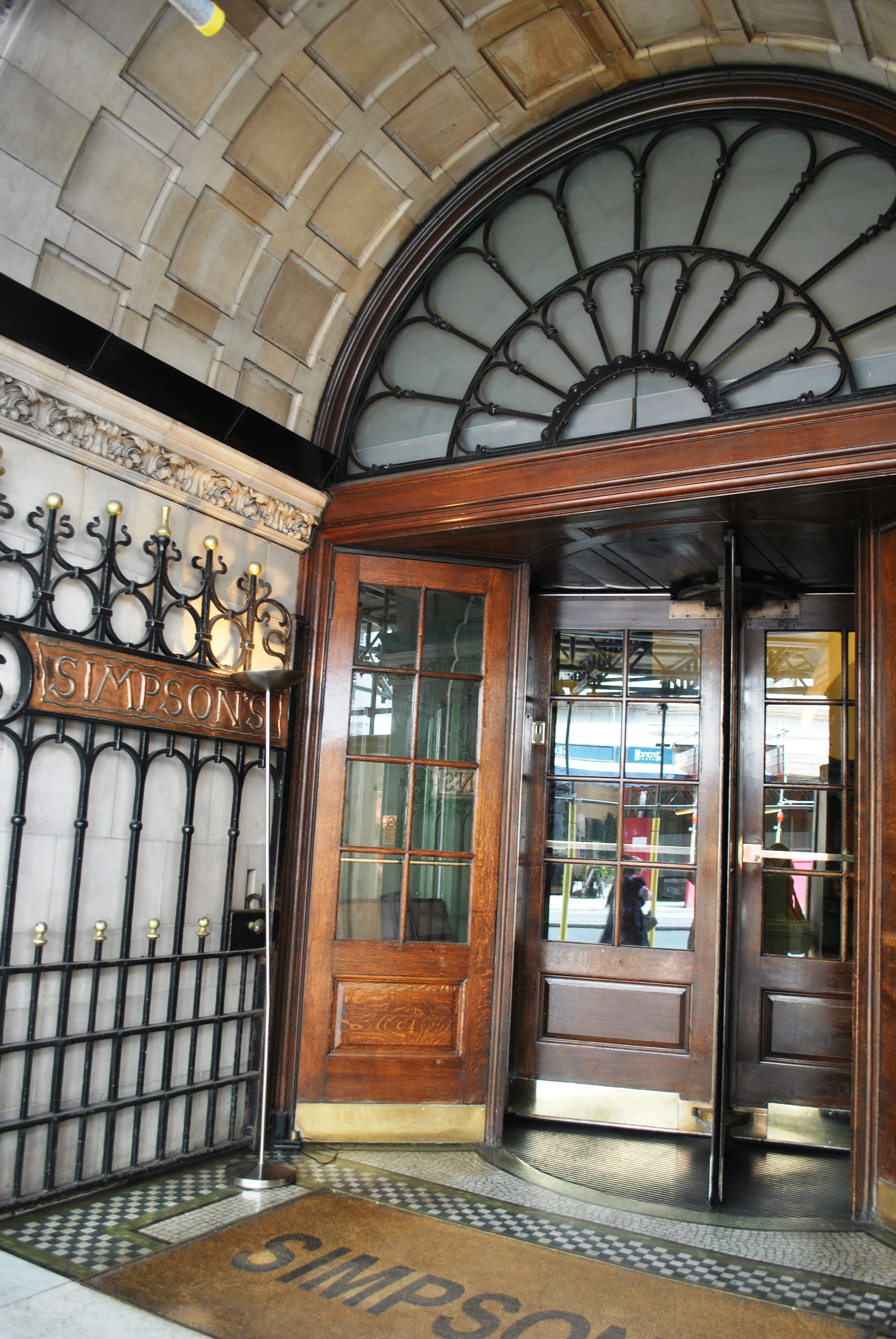 Simpson's-in-the-Strand